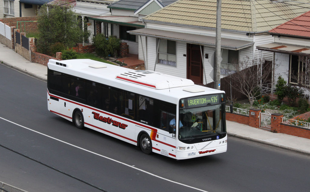 Westrans number 114 rego 6510 AO on route 414 at West Footscray, Australia. Volgren CR228L bodied Volvo B12BLE, built 2007.